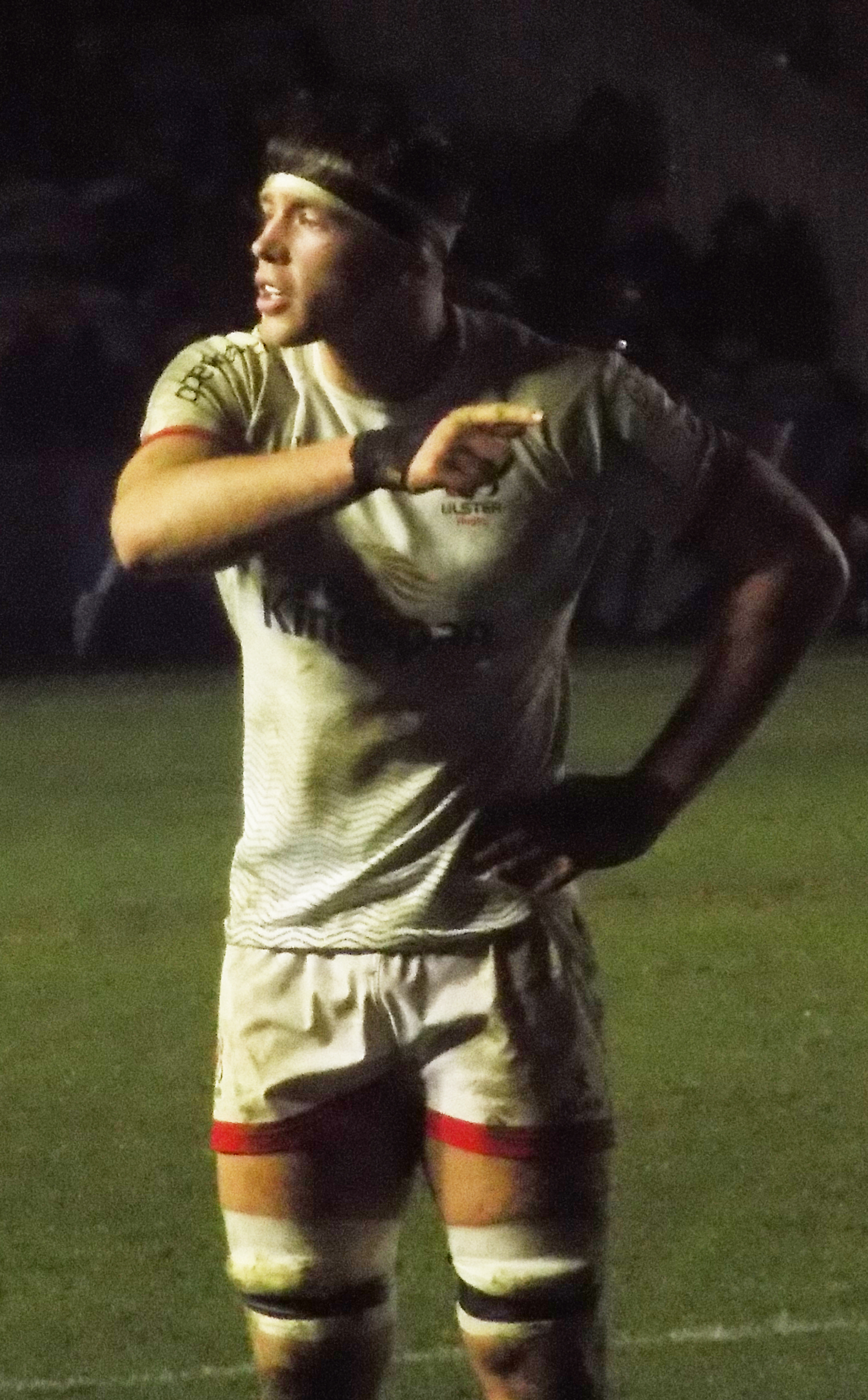 Ulster away at Quins on a cold winter night at the Stoop. Rea collected man of the match for his performance in this impressive win for the Northern Irish provincial side. Rugby Union.